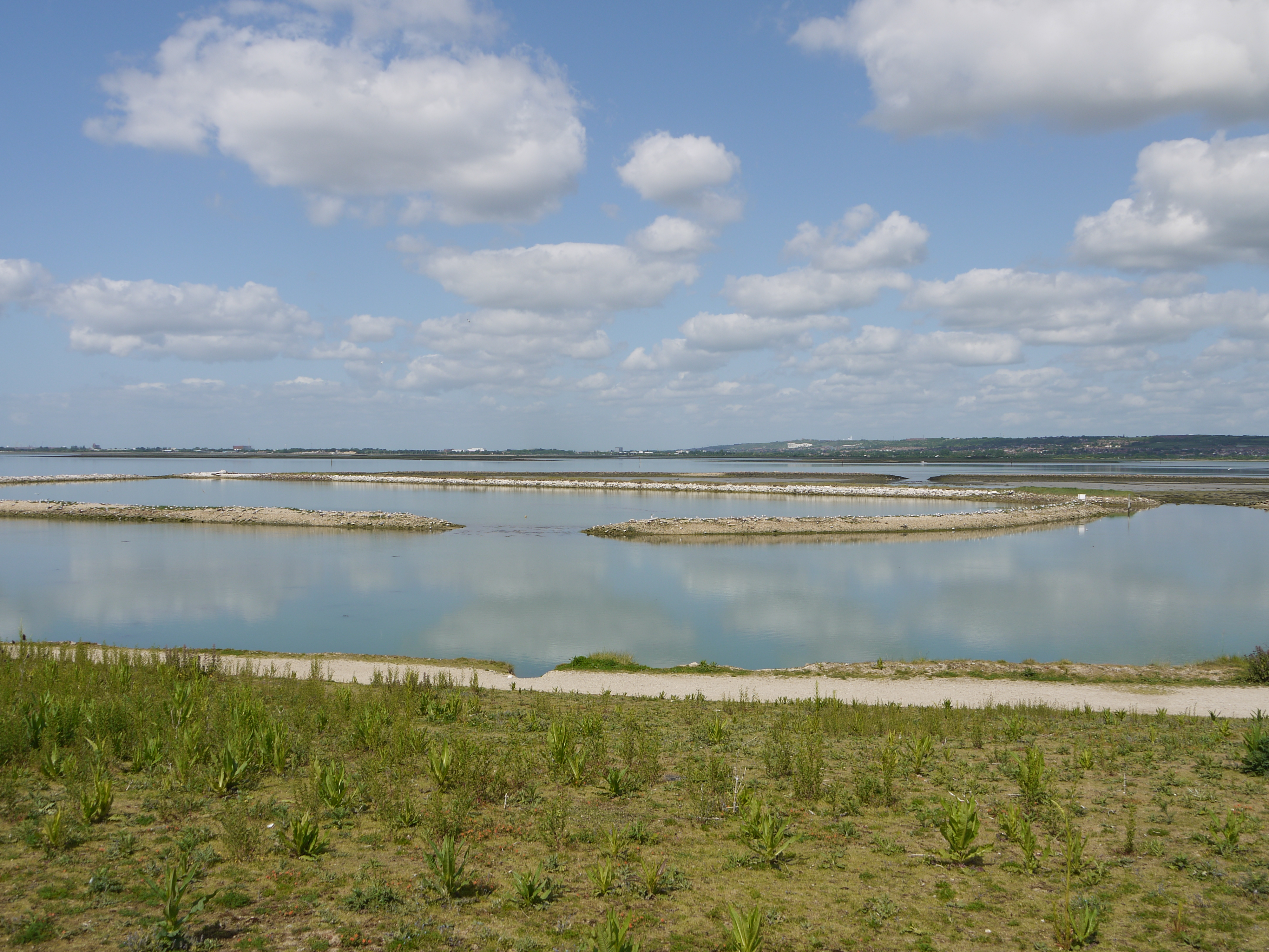 Photo of part of the salt water lagoon on the site of the old oyster beds in langstone harbour